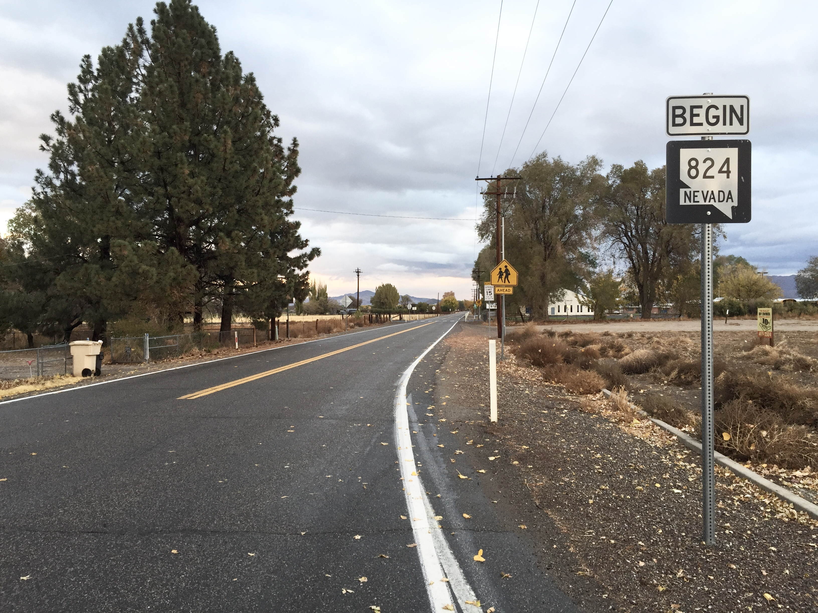 View north from the south end of Nevada State Route 824 (Day Lane) in Lyon County, Nevada